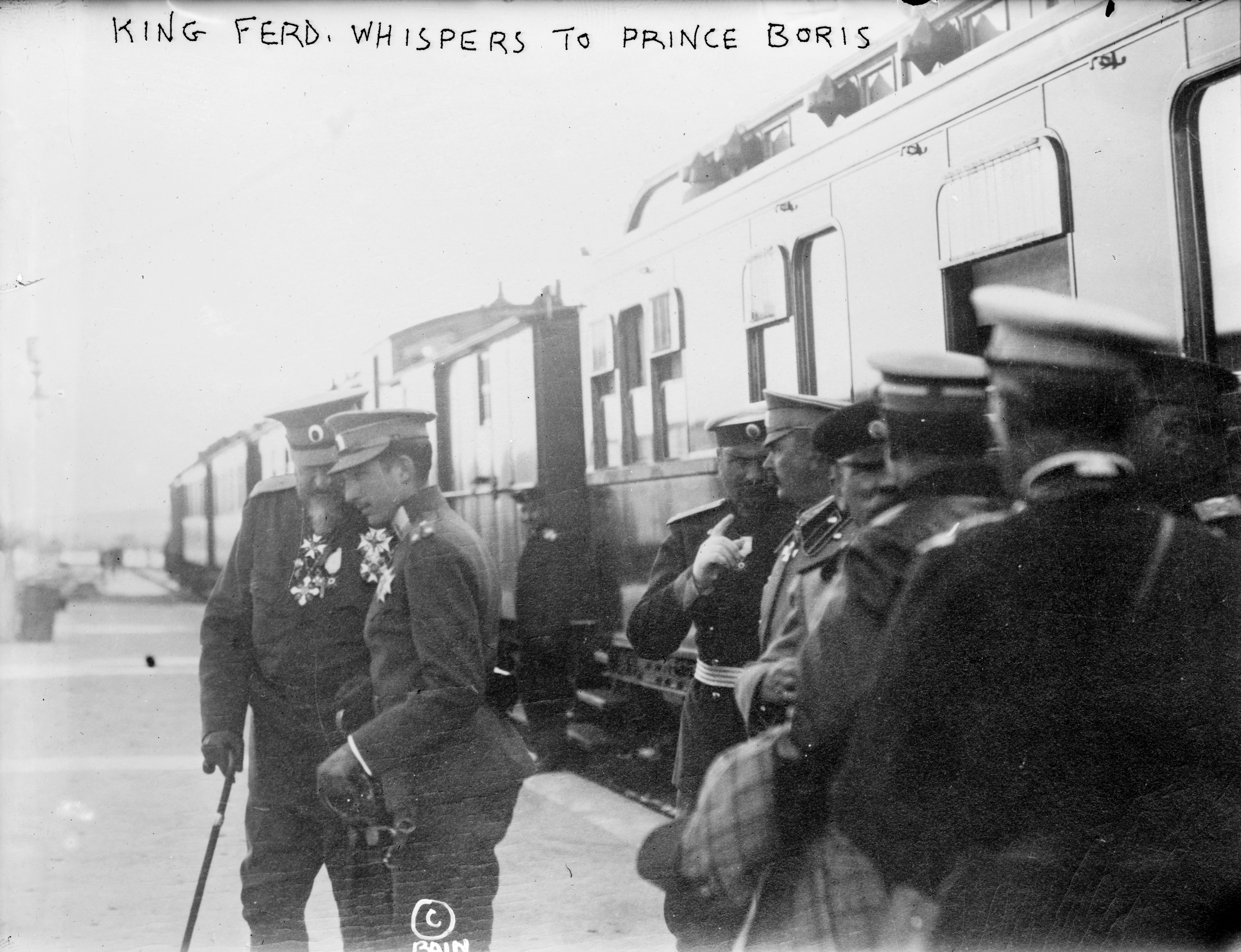 Photo shows Ferdinand I, Czar of Bulgaria, and his son Prince Boris, probably near Adrianople during First Balkan War.